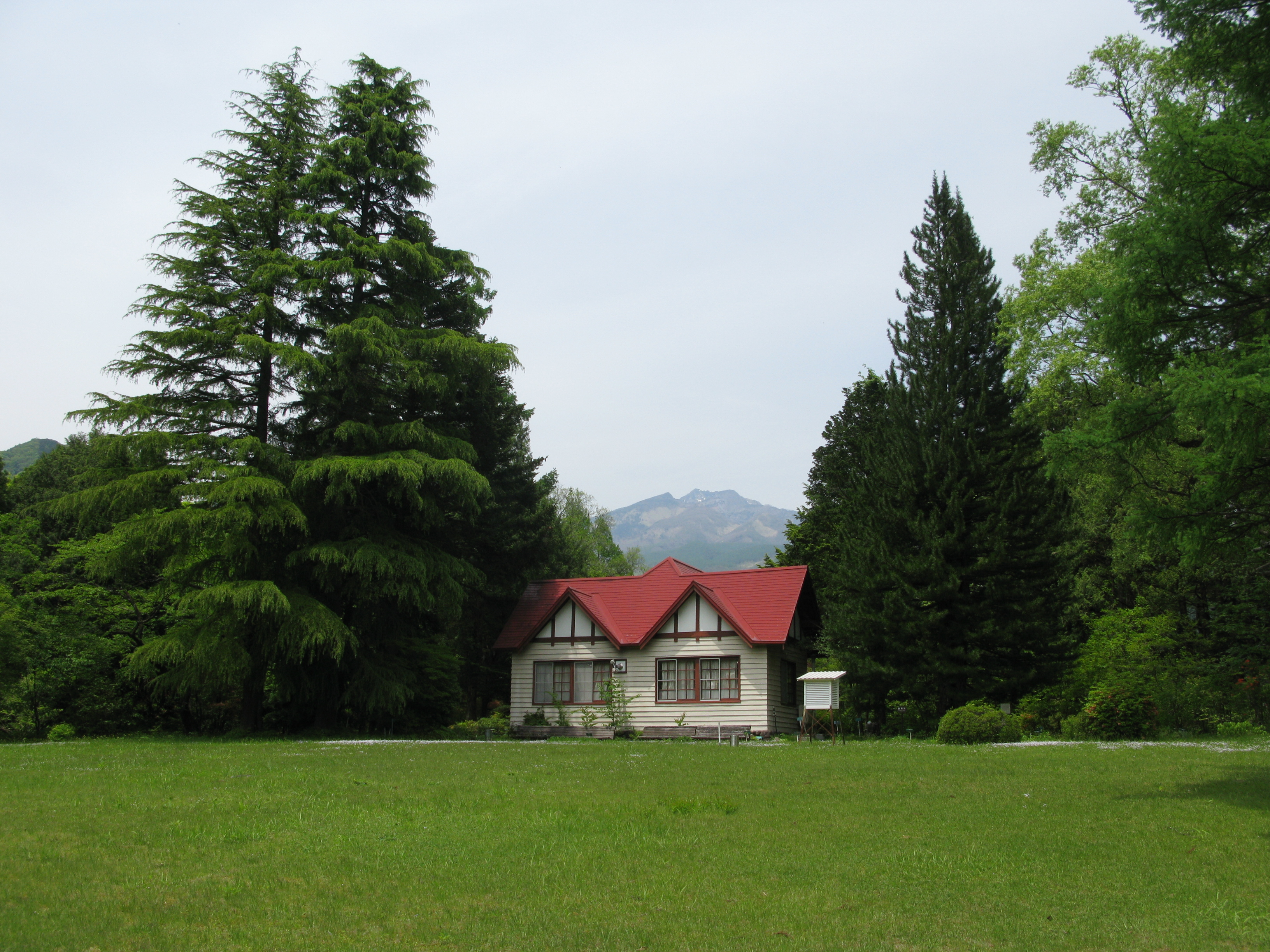 Nikko Botanical Gardens, the University of Tokyo, Tochigi pref.,Japan